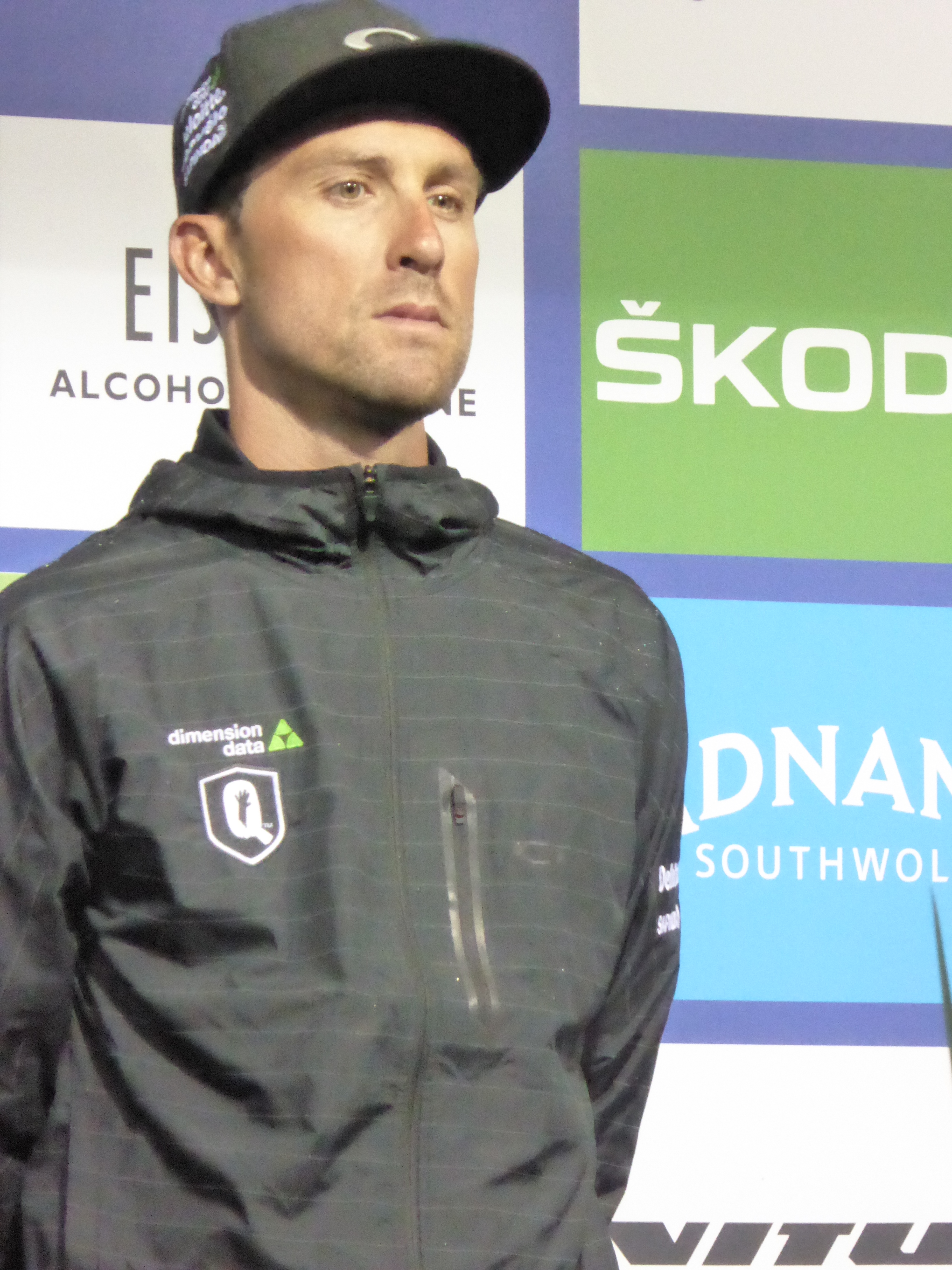 Bernhard Eisel (Team Dimension Data), pictured at the 2016 Tour of Britain team presentation in Glasgow on 3 September 2016.